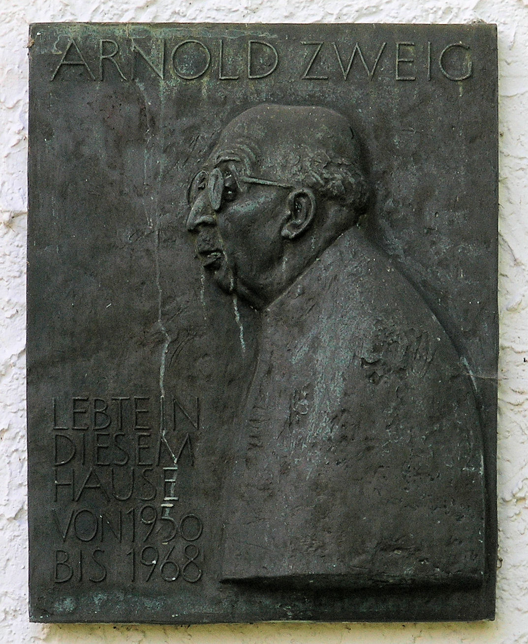 Memorial plaque, Arnold Zweig, Homeyerstraße 13, Berlin-Niederschöneweide, Germany